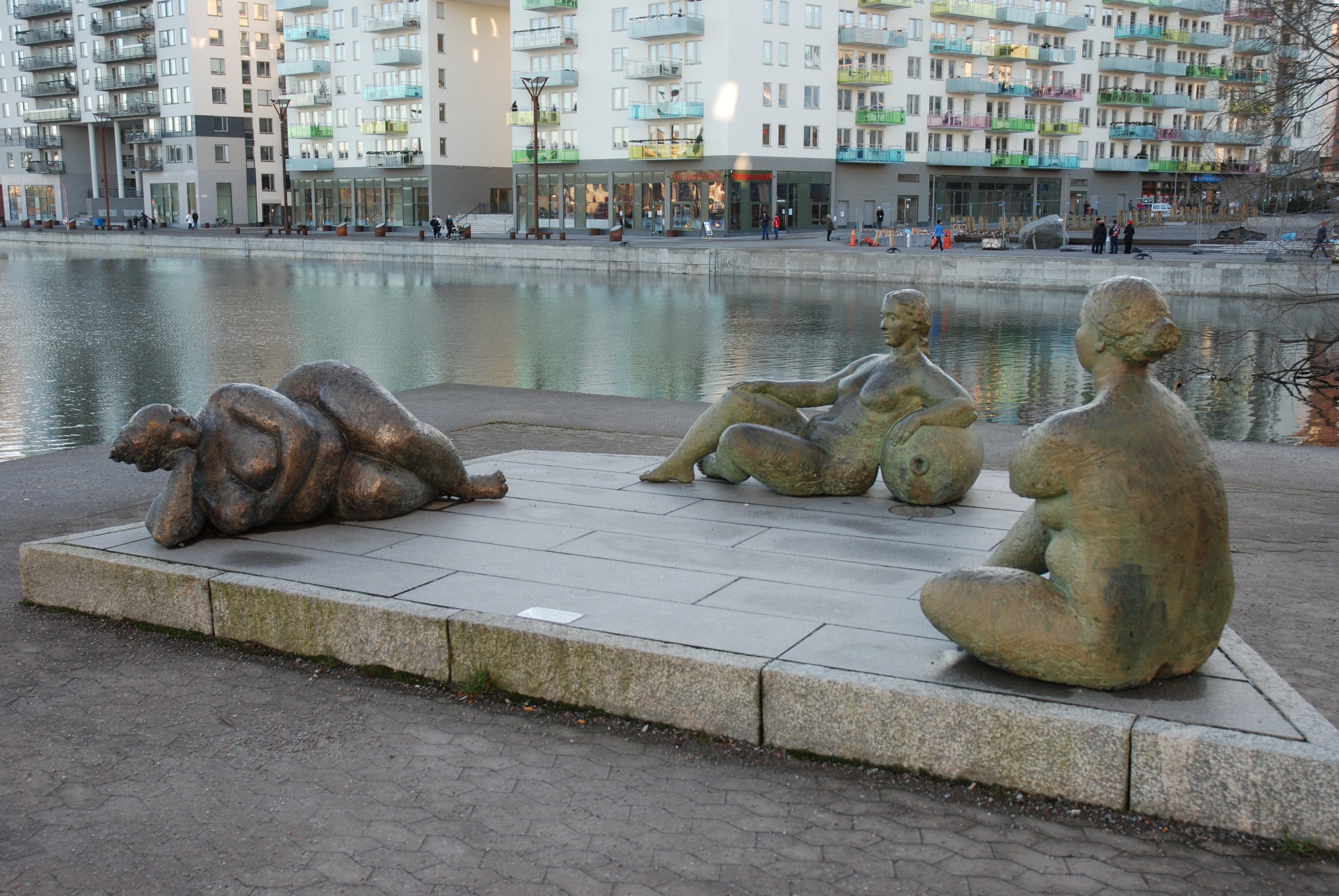 A tale about something that we have forgotten (En berättelse om något vi glömt), bronze sculpture from 2003 by Lena Lervik at Liljeholmen, Stockholm, Sweden